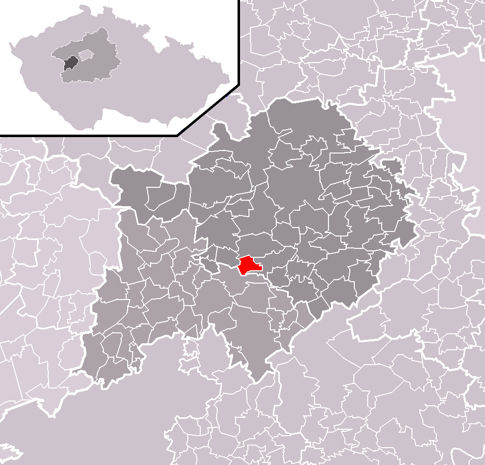 Location of Málkov municipality within Beroun District and administrative area of Beroun as a Municipality with Extended Competence.